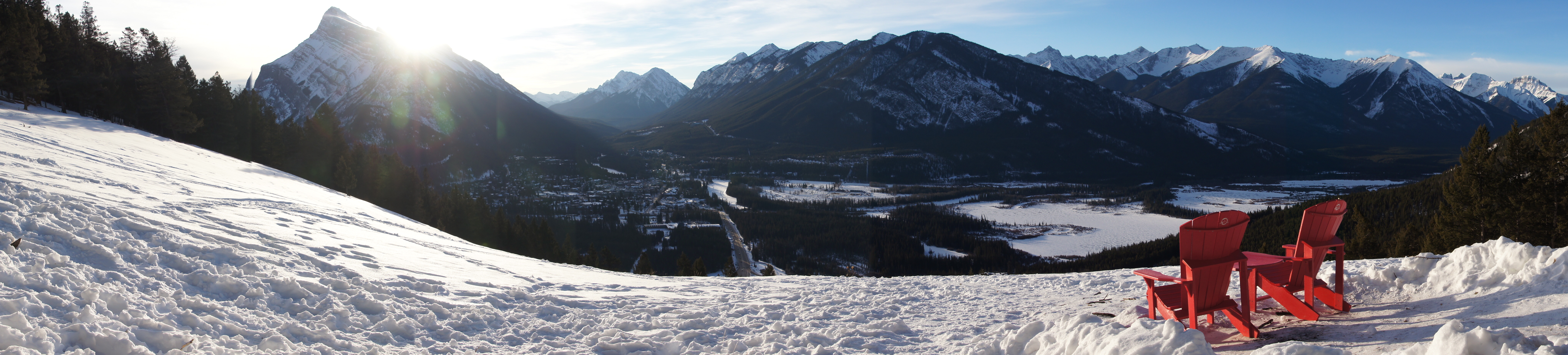 The sunrises over Banff from a vantage point on the road to Mt. Norquay.